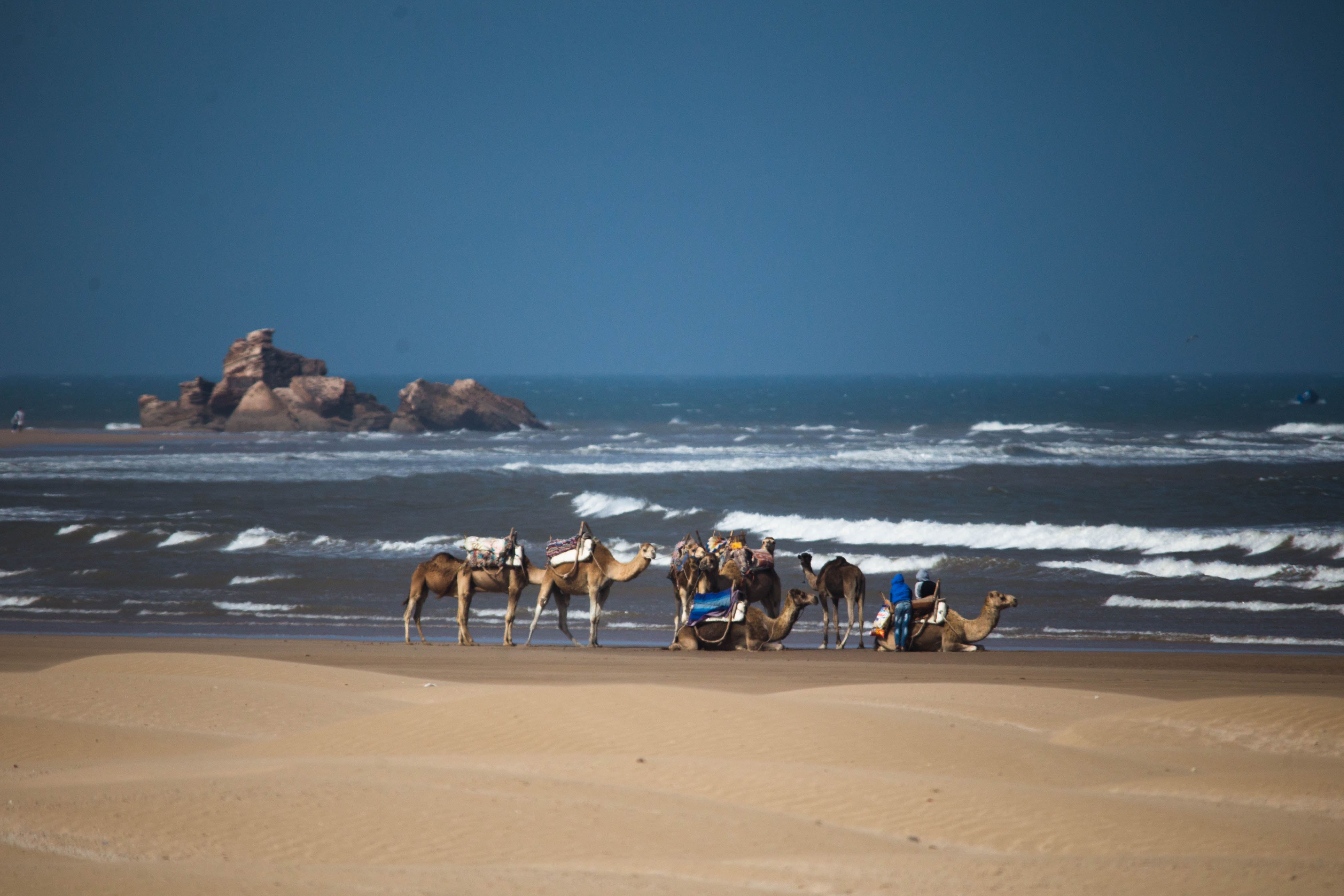 When the ships meet - Essaouira Morocco by Brahim FARAJI This is an image with the theme "Africa on the Move or Transport" from: Morocco